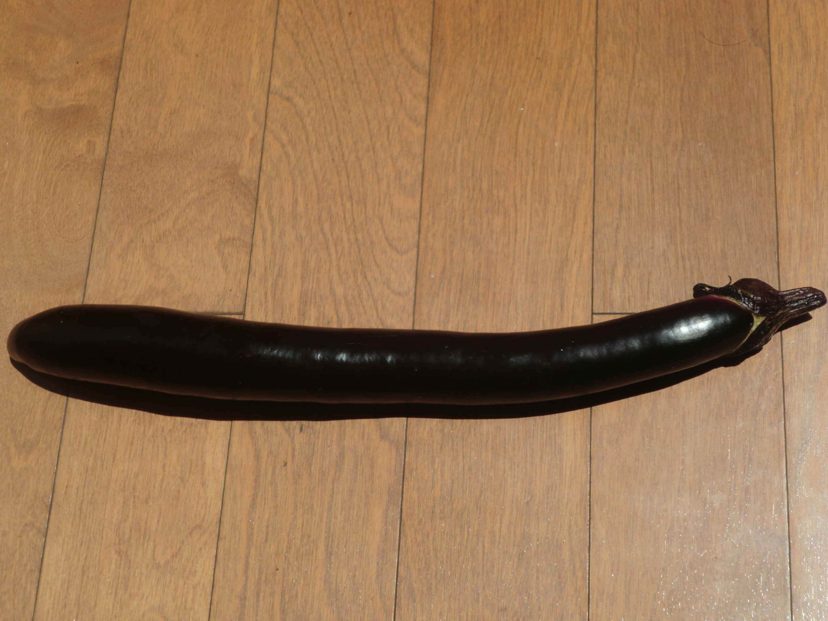 "Ohnaganasu"(big and long eggplant) produced mainly in Kumamoto prefecture.